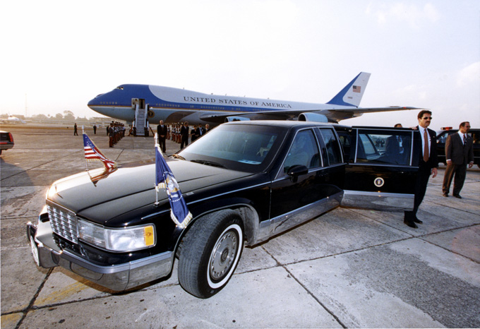 An image of Air Force One, Secret Service Agents and the Presedential Limousine. Air Force One or the Presidential Limousine essentially becomes the Oval Office when the President is traveling beyond the perimeter of the White House Complex.